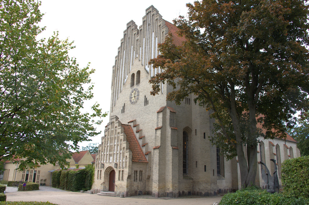 "Paulus" by Poul R. Weile, Peace Church, Odense, Denmark 1995, art in public space